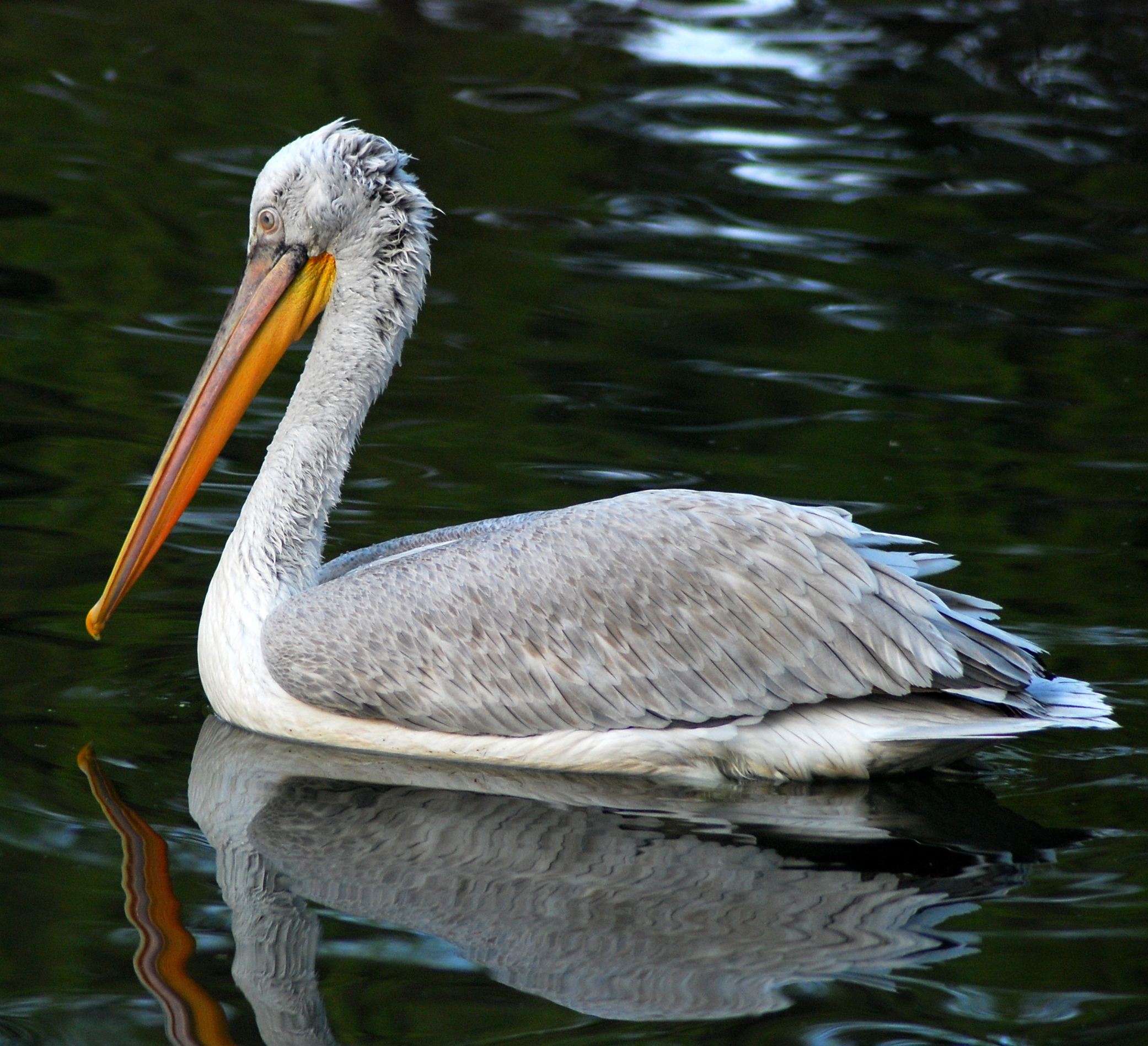 A Dalmatian Pelican swimming at Beijing Zoo, China